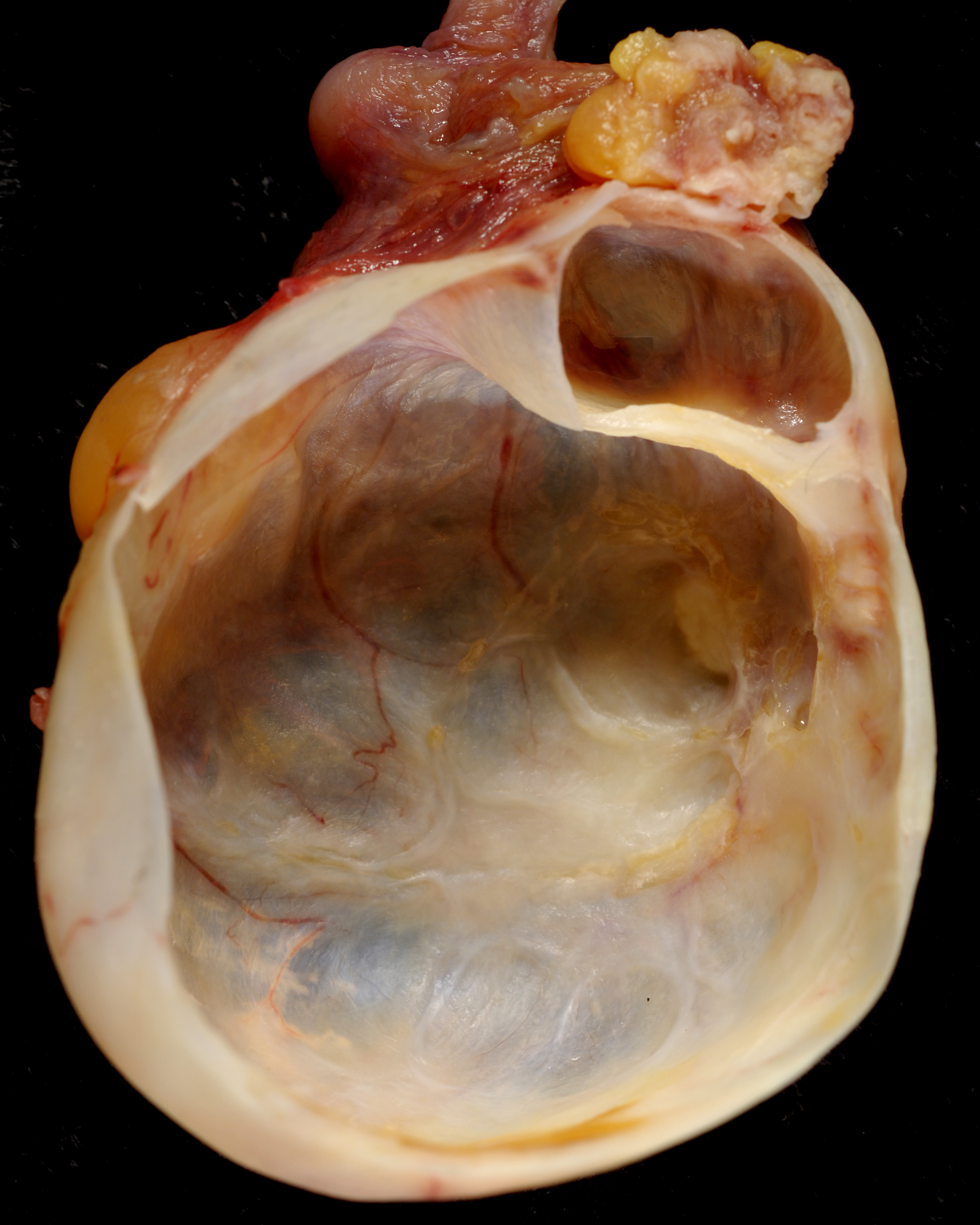 In the same patient with cervical carcinoma Pathological and histological images courtesy of Ed Uthman at flickr.